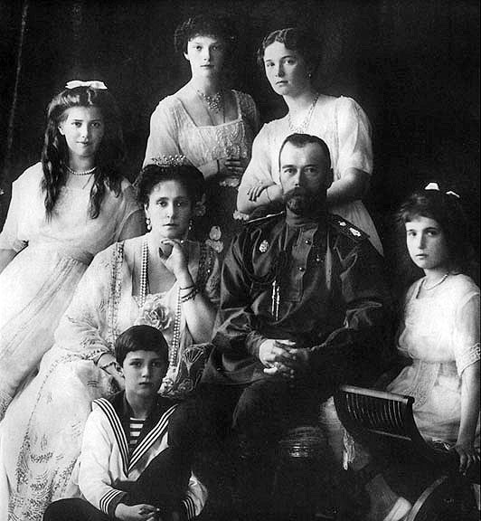 Family of Nicholas II of Russia